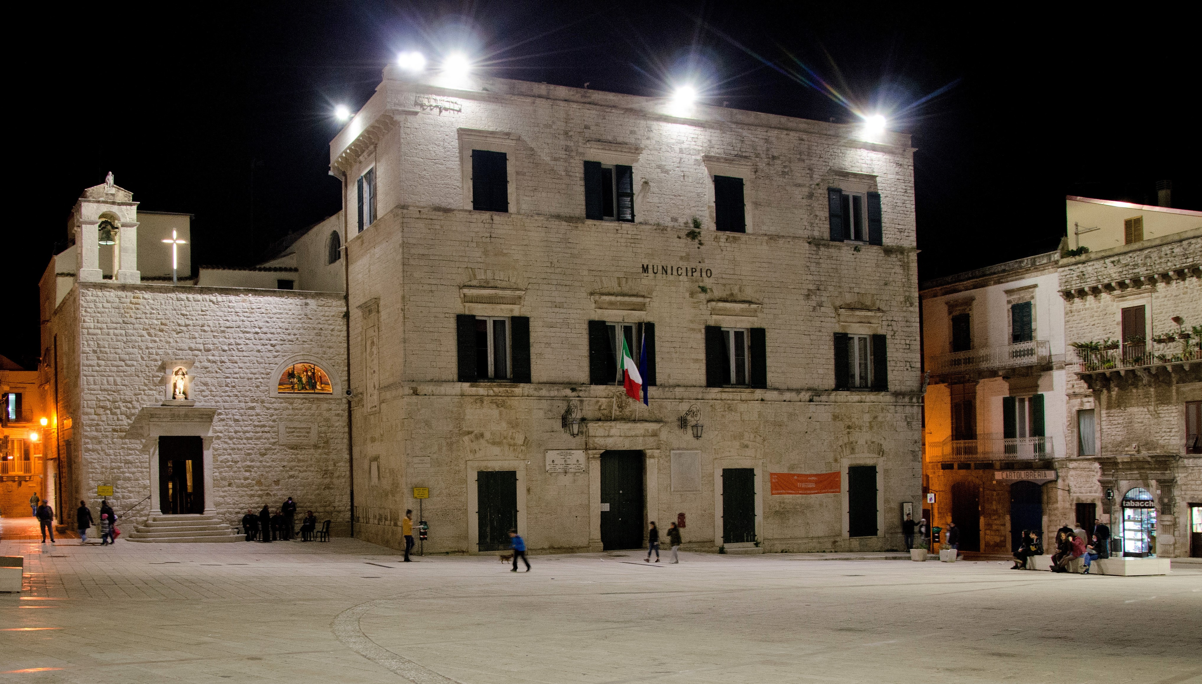 Palazzo Avitaja et chiesa San Rocco à Ruvo di Puglia